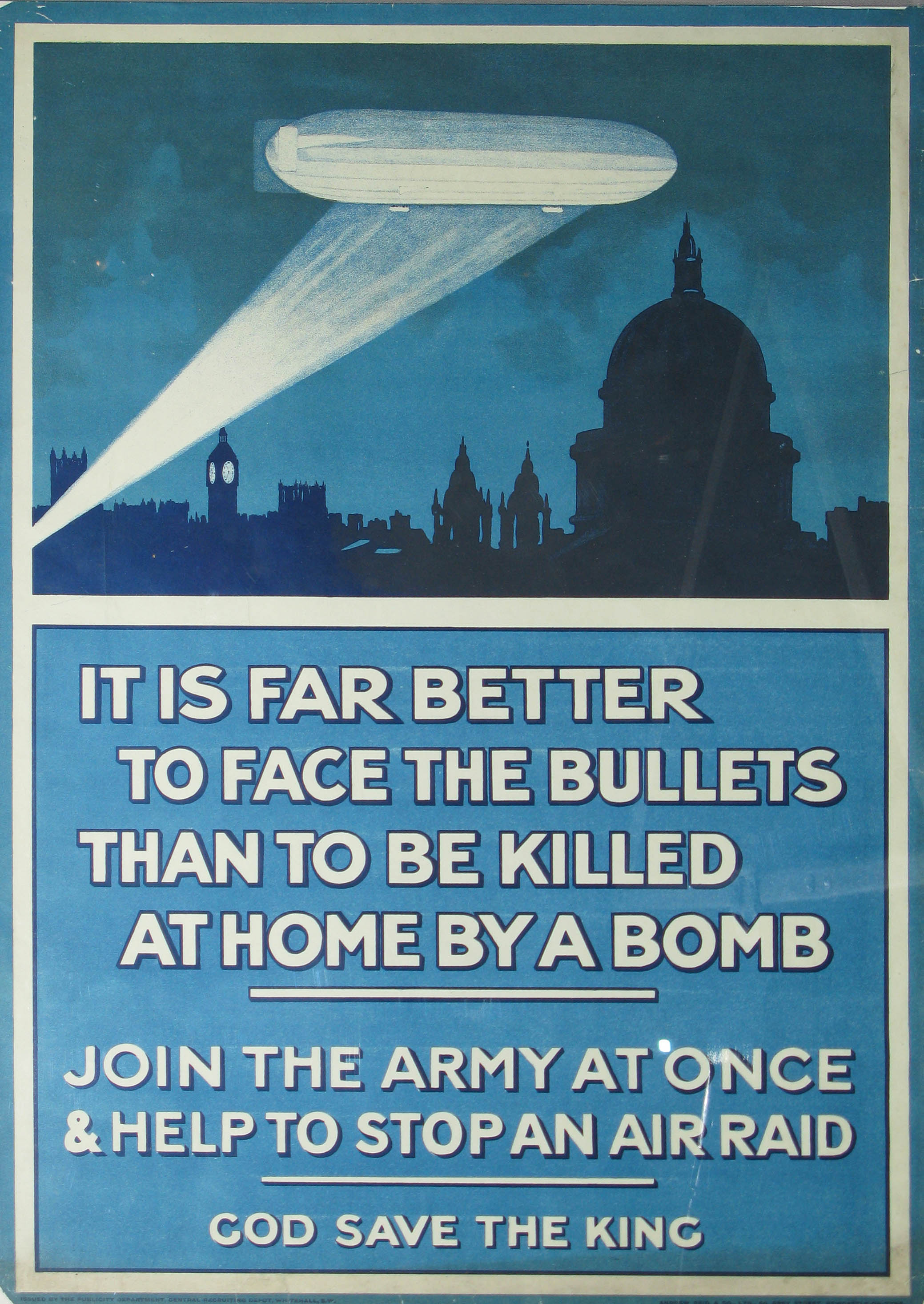 WWI poster profiting on the scare brought about by the German night bombing raids on London.Photo taken in the Imperial War Museum in London.